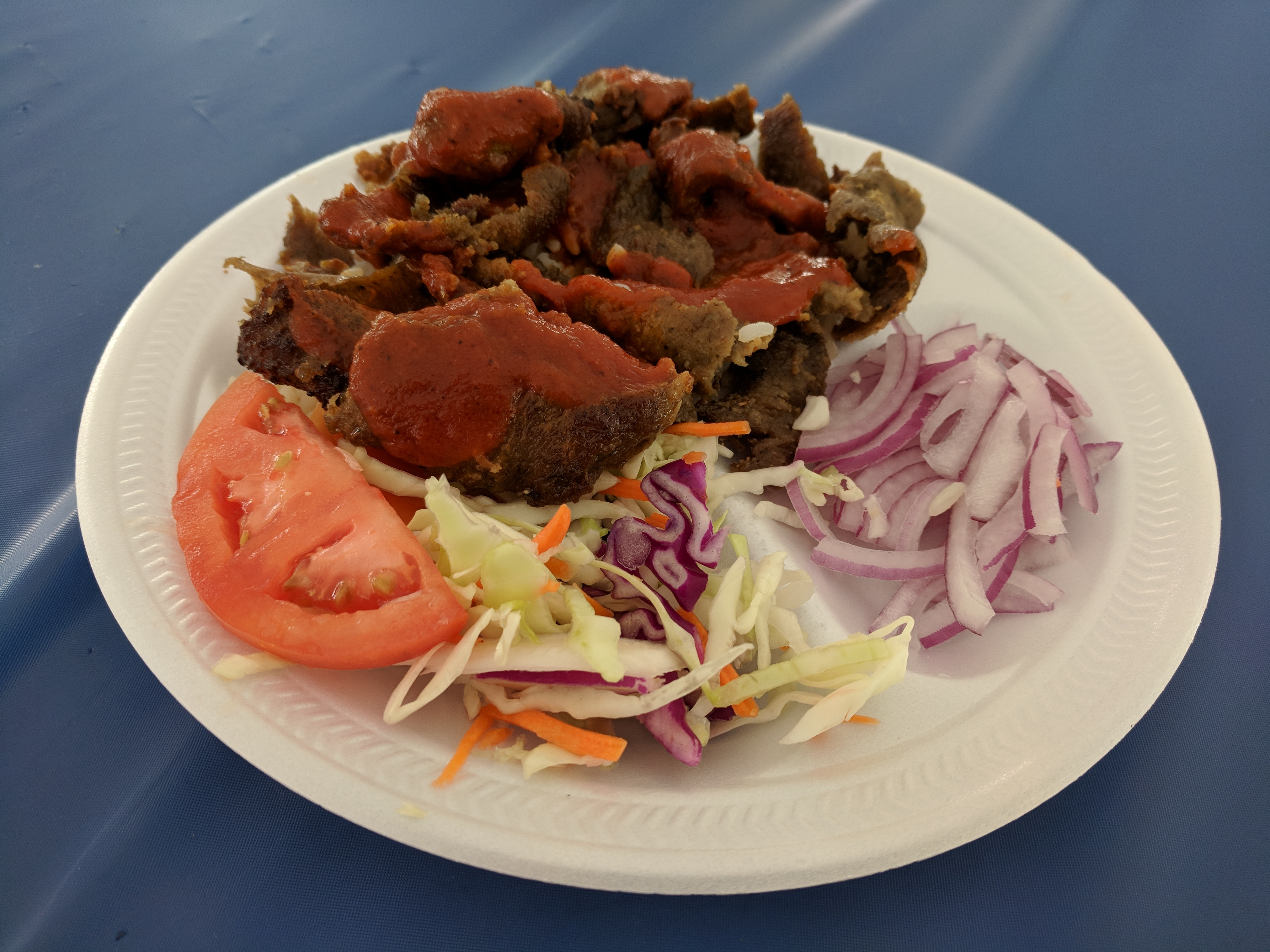 A plate of Doner kebab with tomato sauce, and salad at the Turkish Society of Rochester's Arts and Folk Festival 2018 in Chili, New York